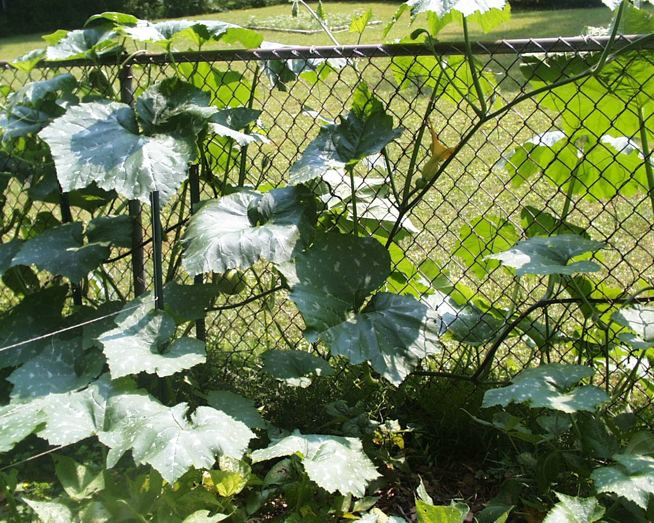 A Calabasa(Cucurbita moschata) vine. To give a size perspective, the fence it is growing on is tall. There is an immature Calabasa growing on the vine near the center of the picture.